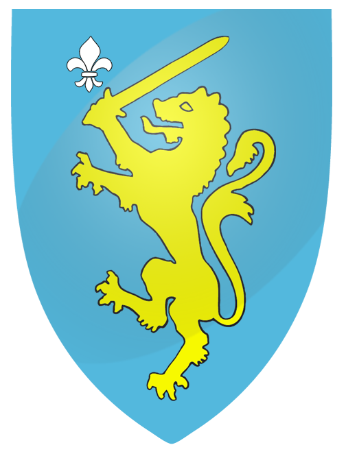 Coat of Arms of Topija (Thopia) Albanian noble family of Middle Ages